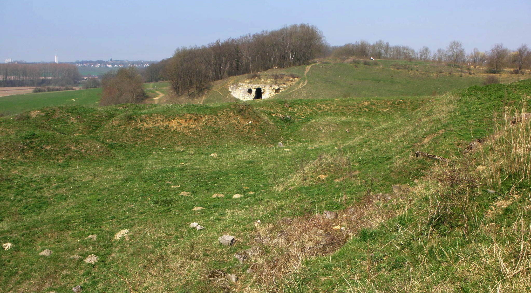 Maastricht, the Netherlands. View of Duivelsgrot ("Devil's cave") amidst grassy slope of mount Sint-Pietersberg. In the distance the telecom tower of Maastricht-Daalhof.